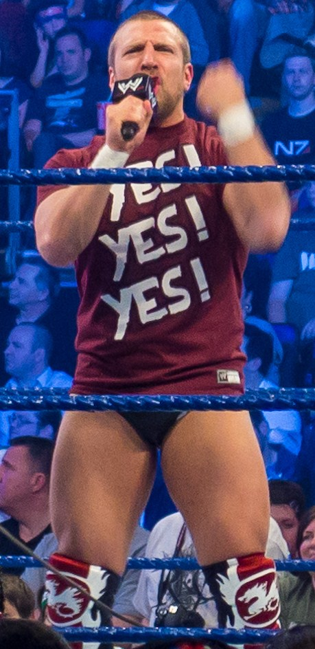 Daniel Bryan addressing the audience at the WWE SmackDown tapings on 17 April 2012.